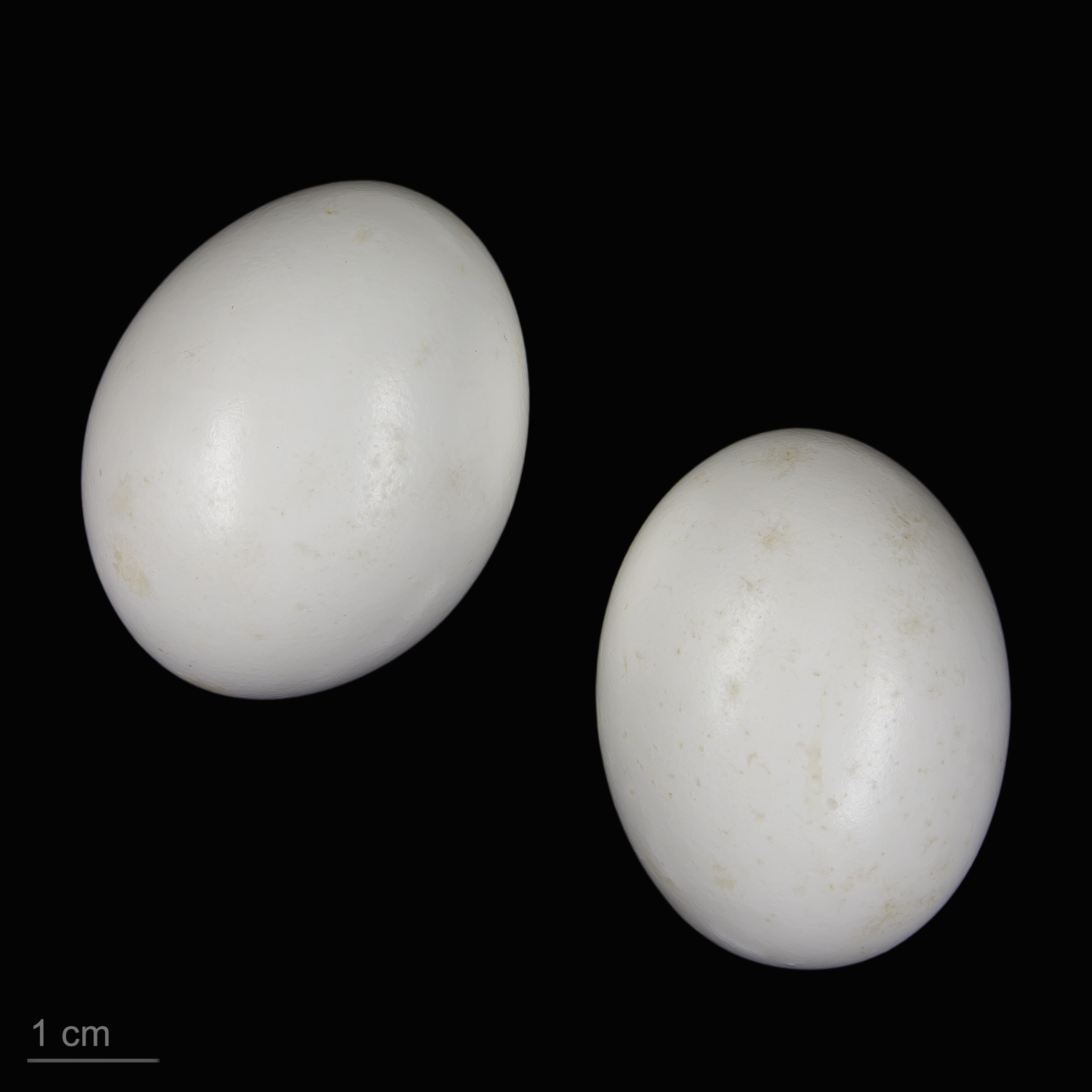 Eggs of rock dove Two specimens of the same spawn ; collection of Jacques Perrin de Brichambaut.